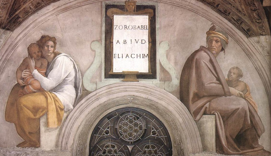 Sistine Chapel, fresco Michelangelo, one of Ancestors of Christ series